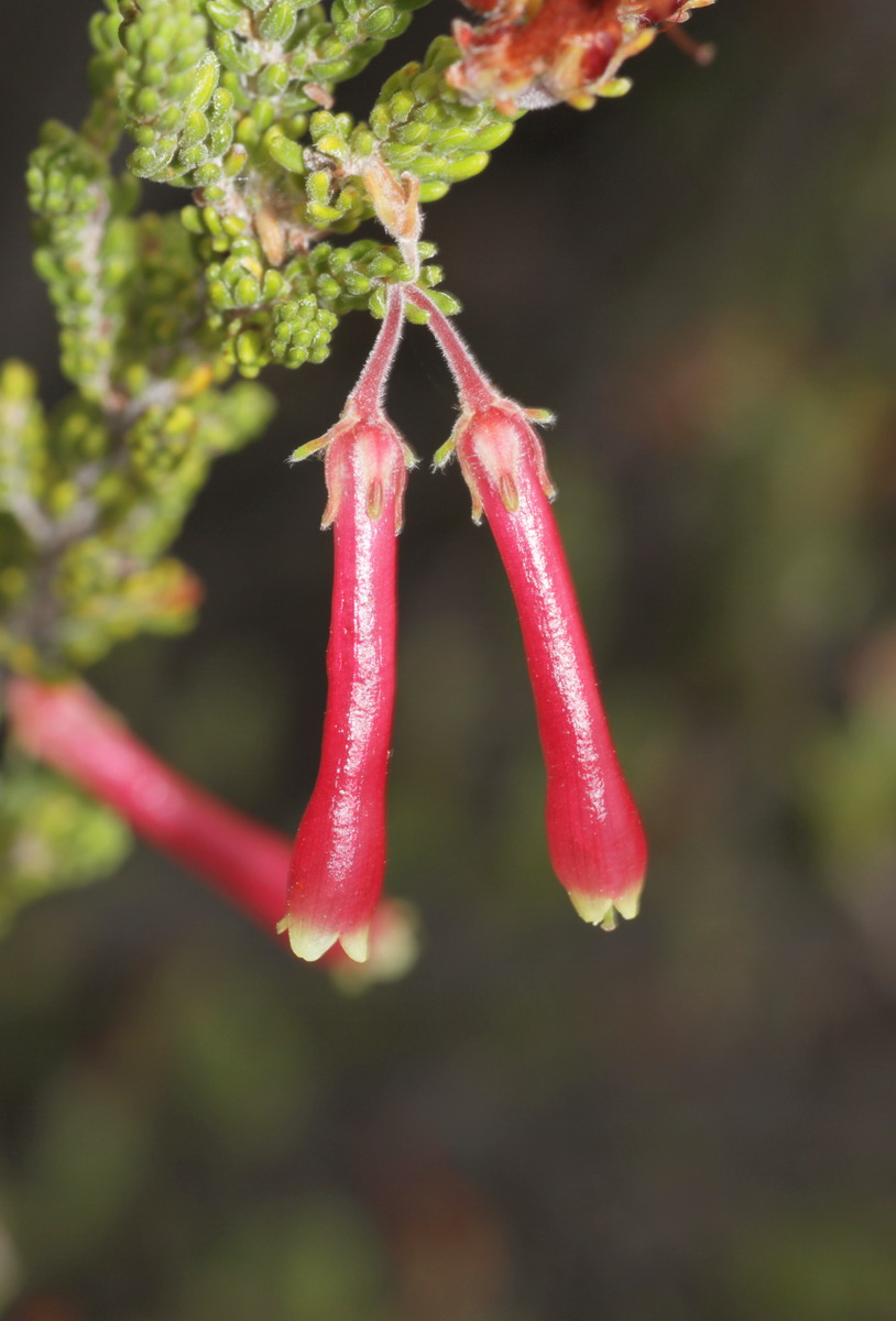 South Africa, Swartberg Nature Reserve.